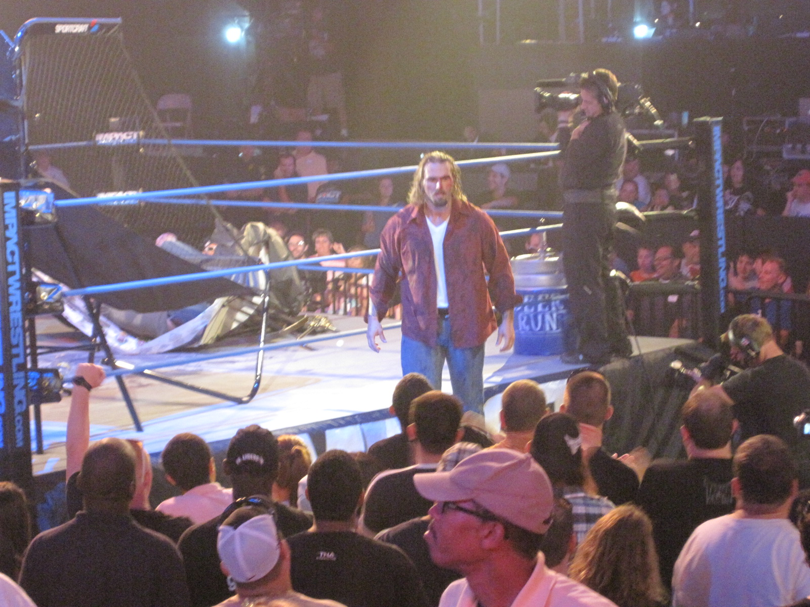 Impact Wrestling Taping. Monday, June 13, 2011 to air Thursday, June 16, 2011